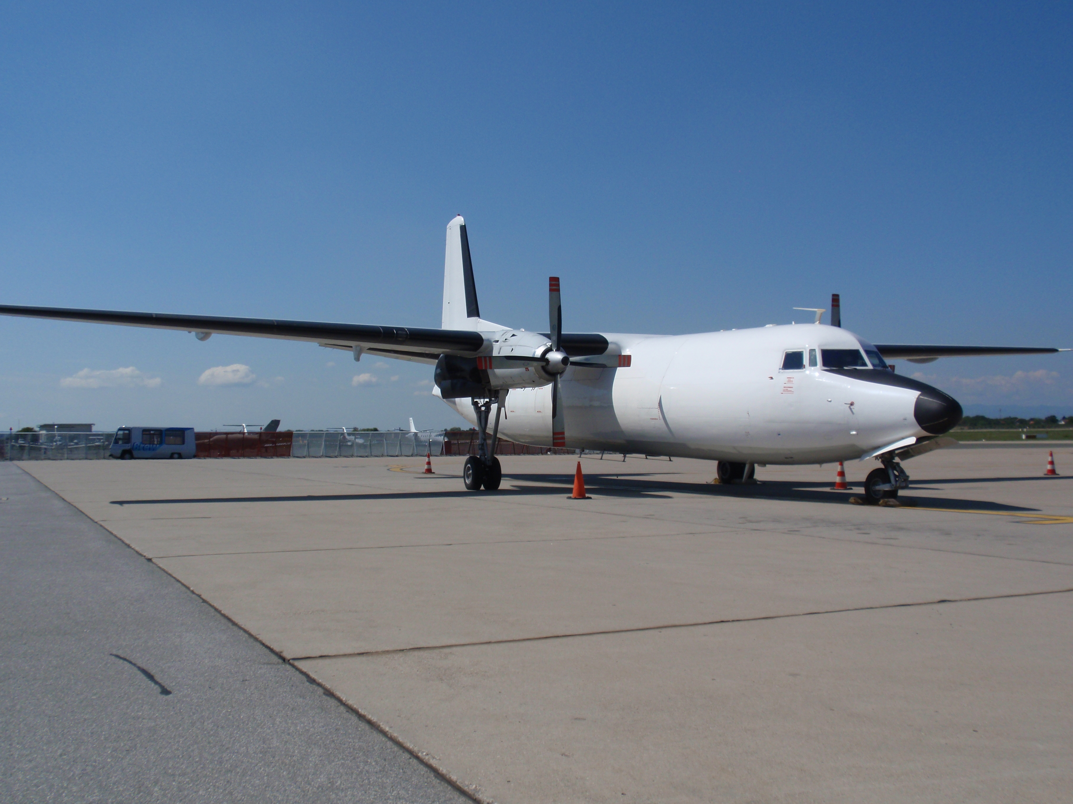 Fokker 27, Cargo